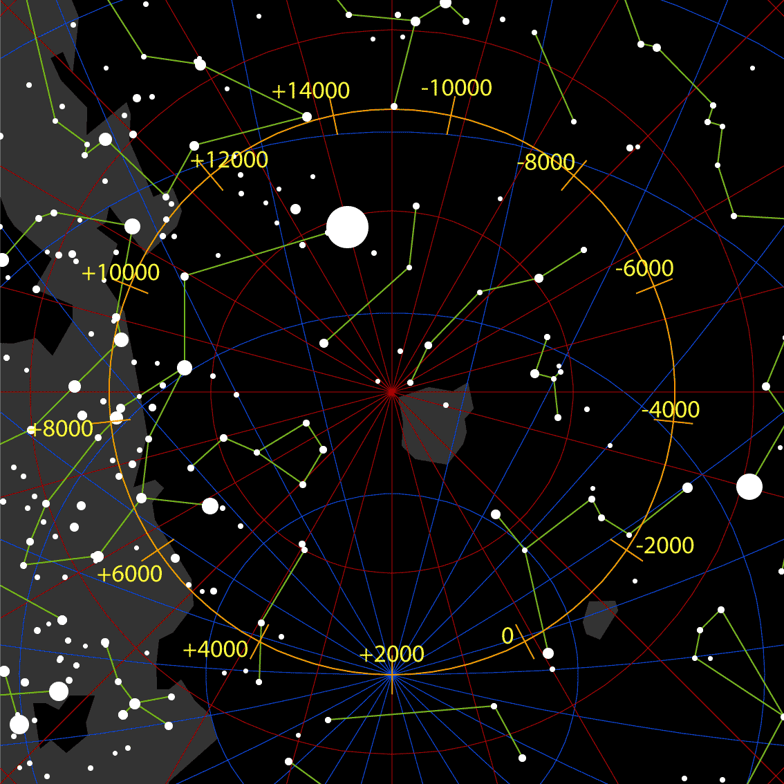 The path of the south celestial pole among the stars due to the precession (assuming constant precessional speed and obliquity of JED 2000)